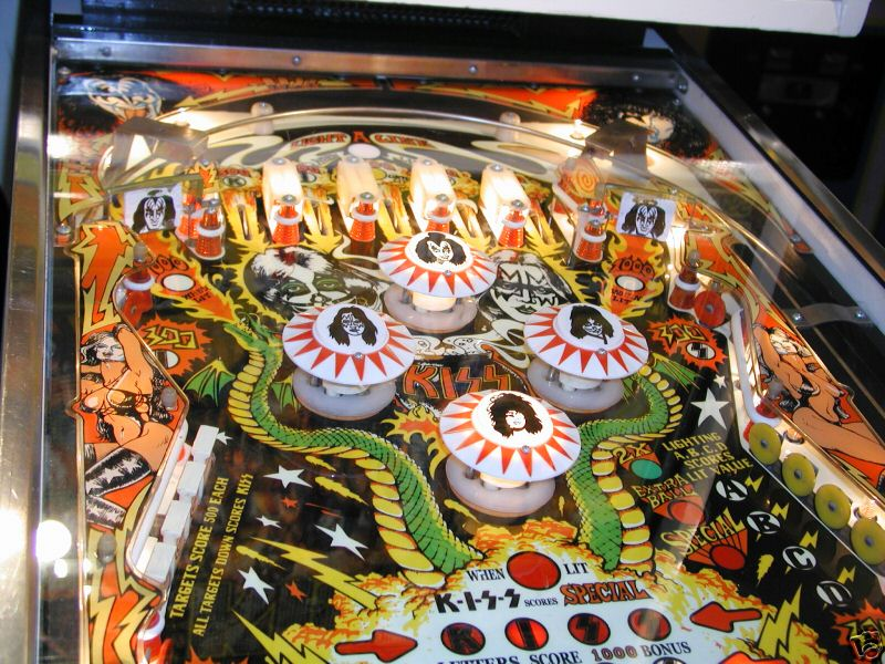 German KISS pinball machine face.